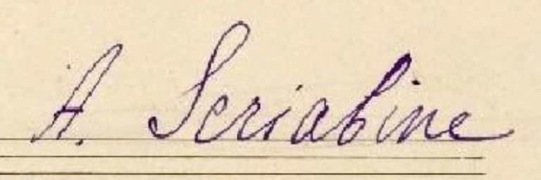 Autograph signature of Alexander Scriabin, from the manuscript of his "2 Poems" Op. 62. From